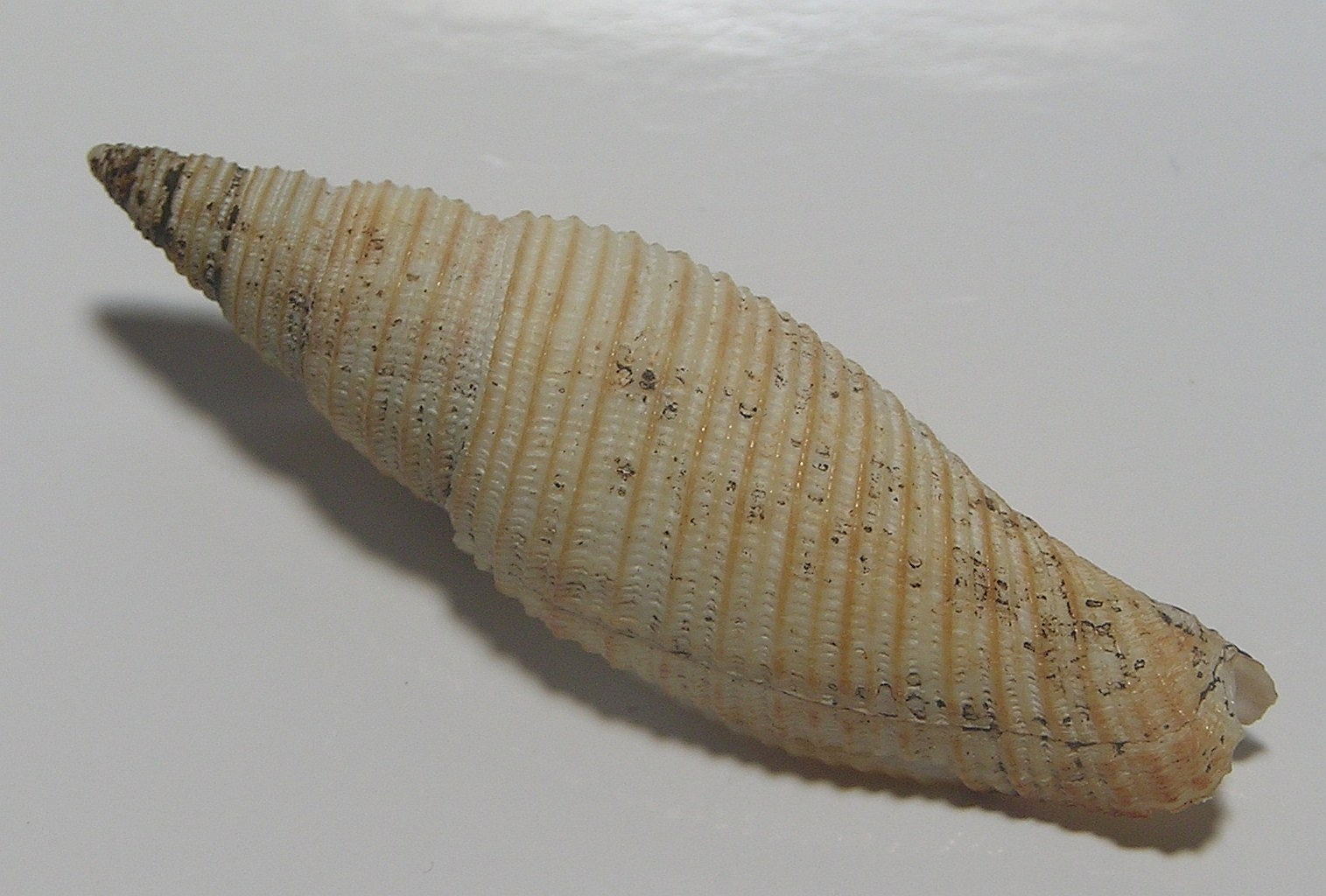 Ziba interlirata (Reeve, 1844), a sea snail from the family Mitridae; Southwest China